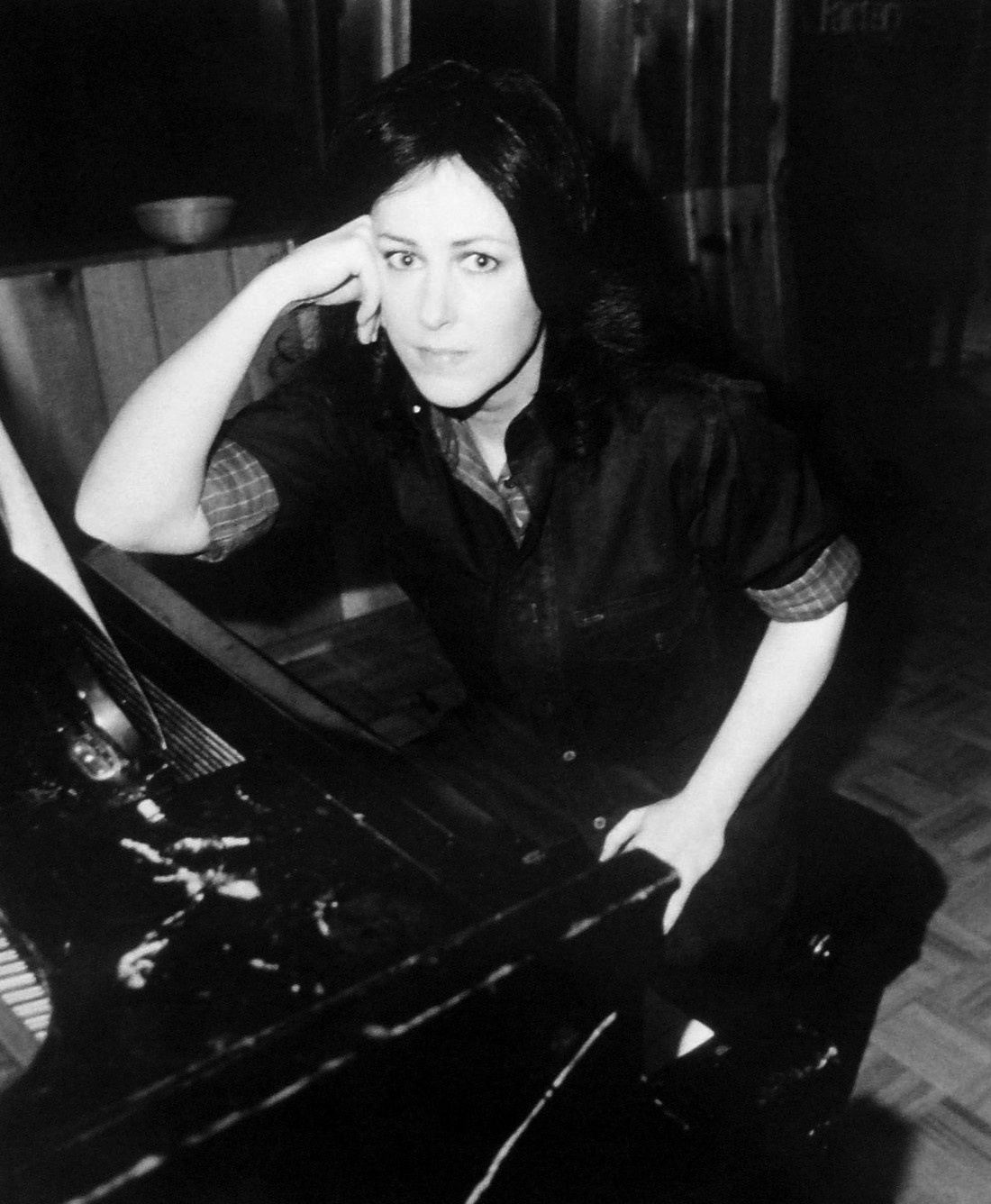 Promotional photo of Grace Slick.